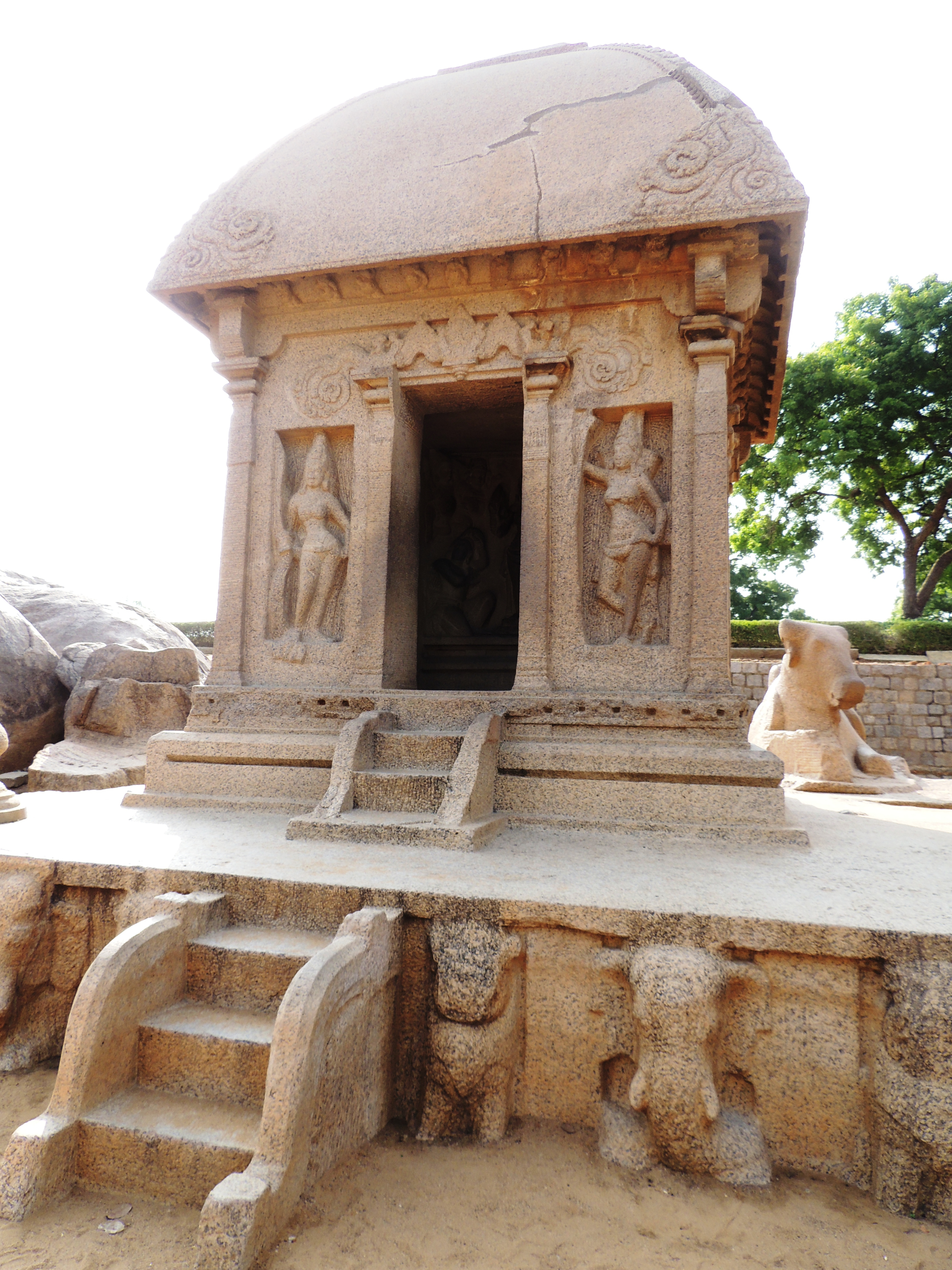 Draupathi Ratha